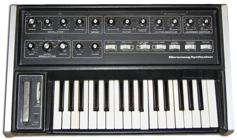 I took this picture.